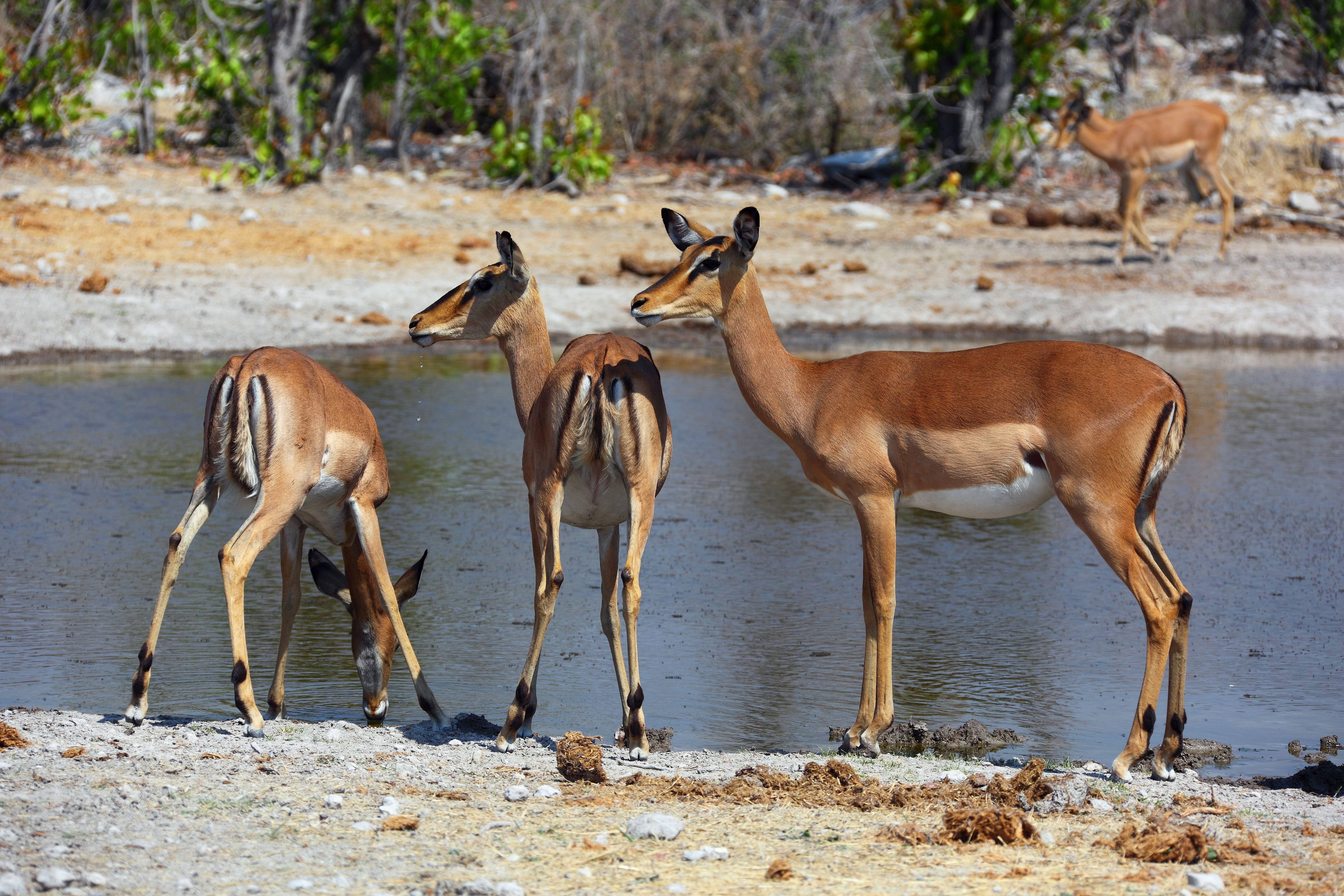 Black-faced female impala (Aepyceros melampus petersi) drinking from a water hole named "Kalkheuwel Bore Hole" in Etosha National Park, Namibia.